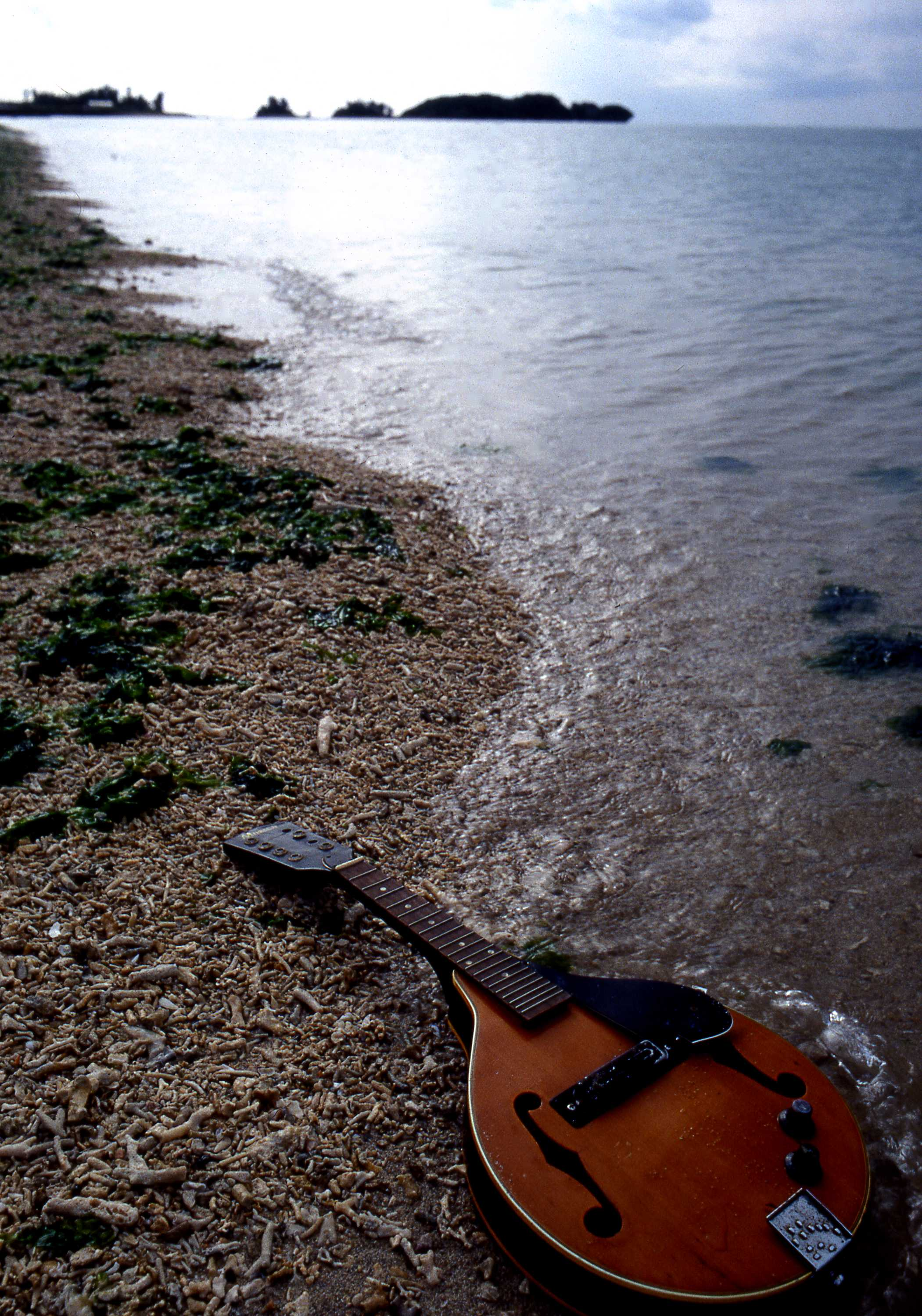 A mandolin at a beach in Itoman, Okinawa Prefecture, Japan